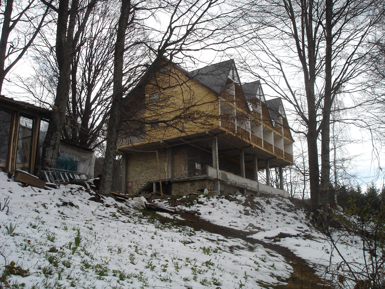 Mountain hut "Kitka" - Macedonia